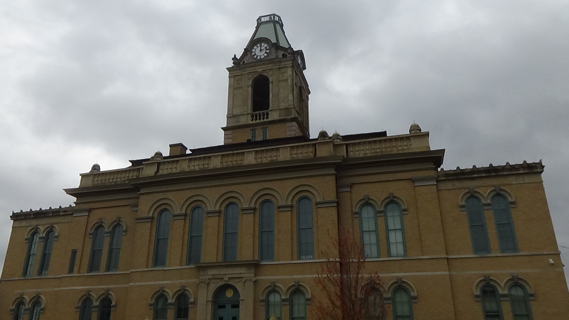 The image was taken on November 18, 2017